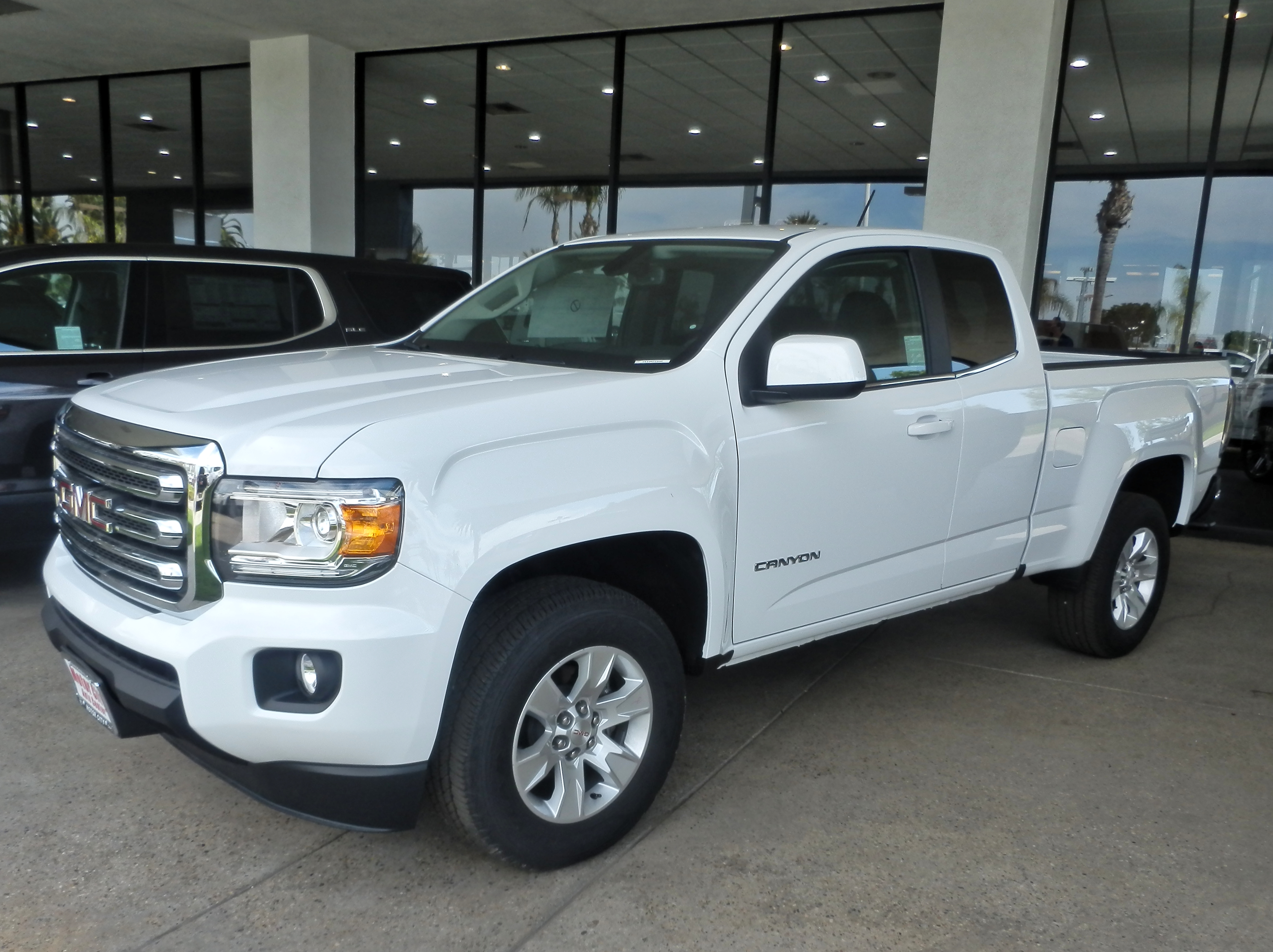 GMC Canyon in Bakersfield